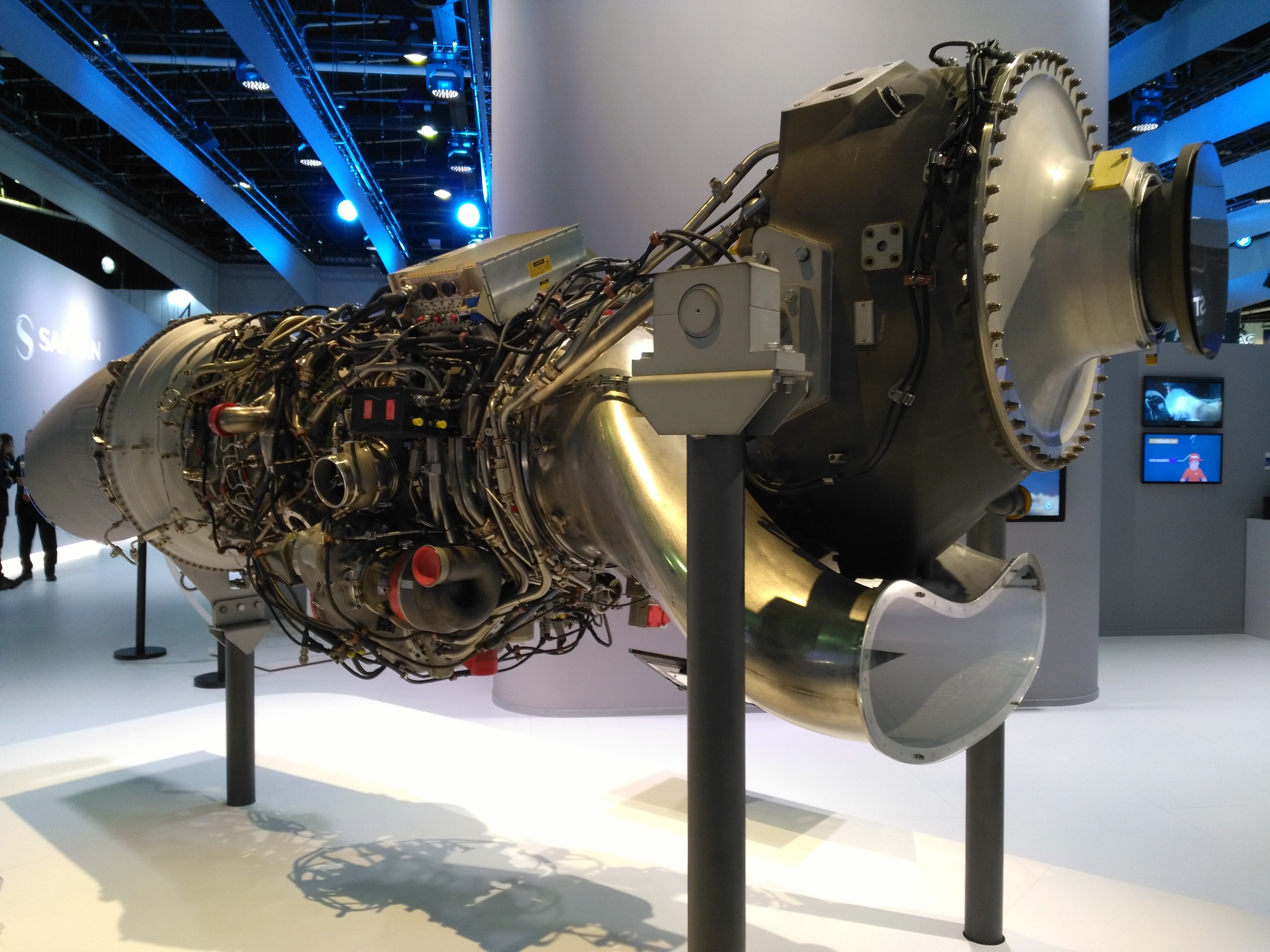 Europrop TP400 on Safran stand at Paris Air Show 2017